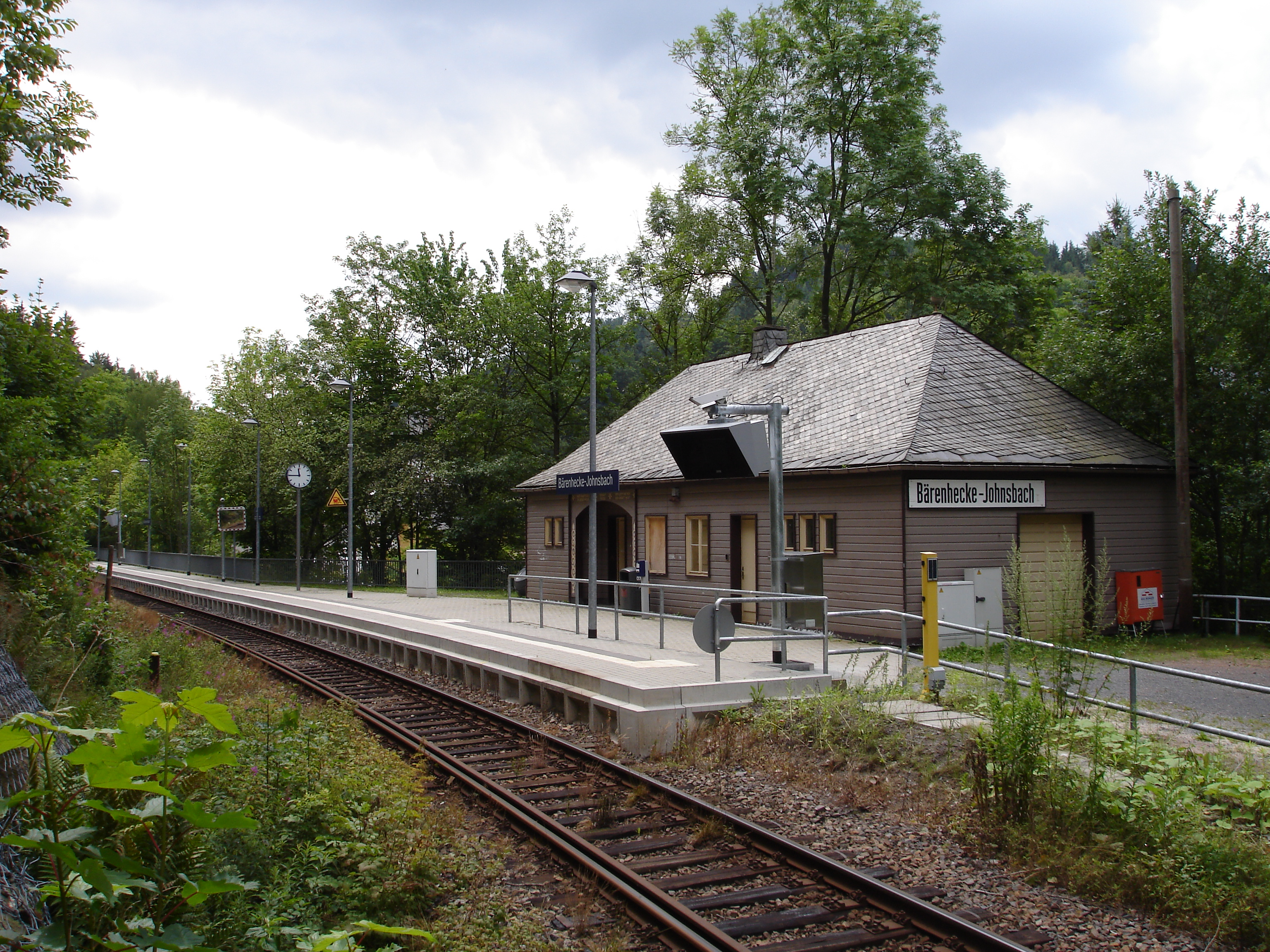 station Bärenhecke-Johnsbach, Müglitztalbahn, Saxony, Germany